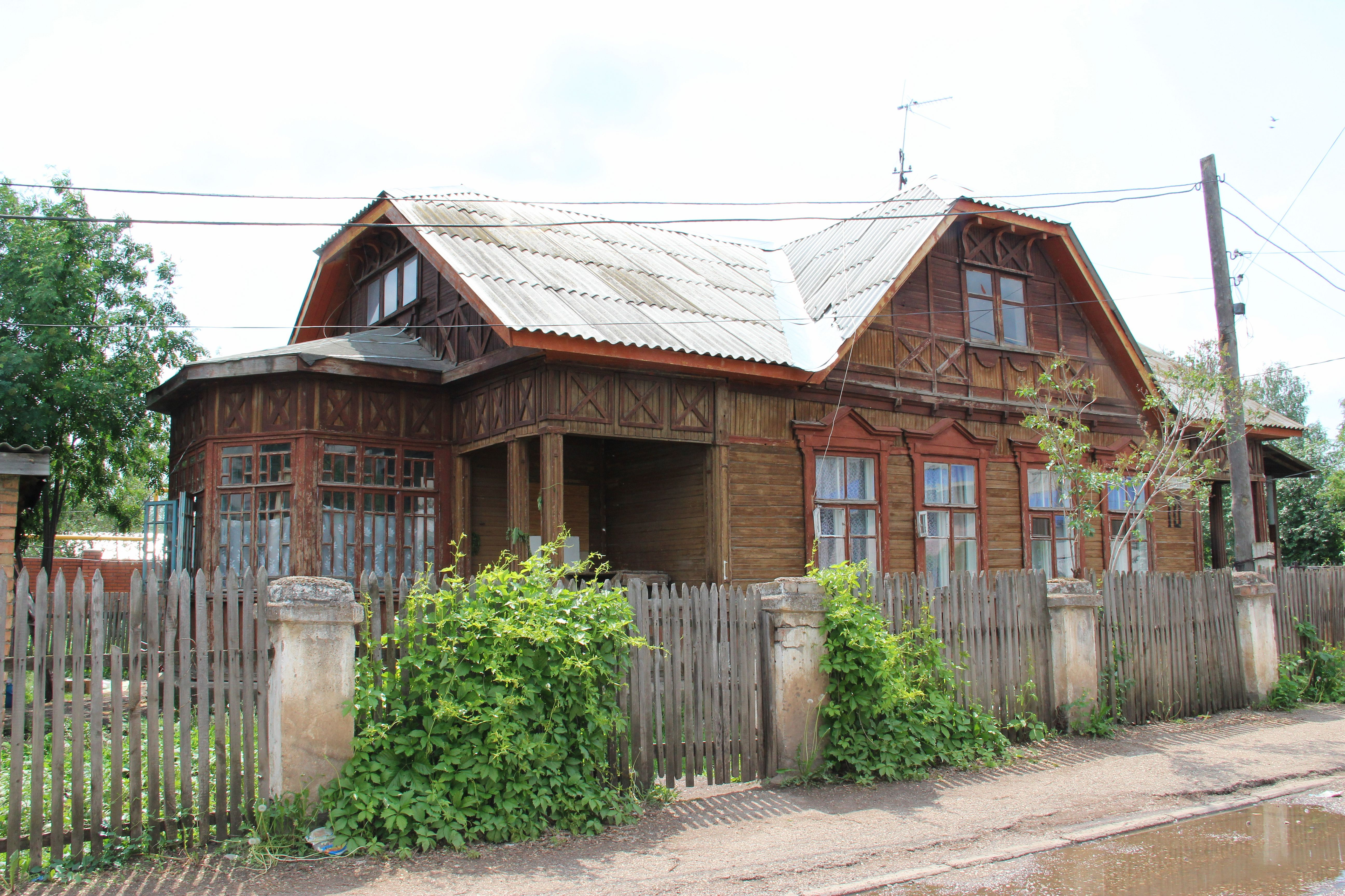 город Салават улица Стахановская д. 10 Первые дома в Салавате